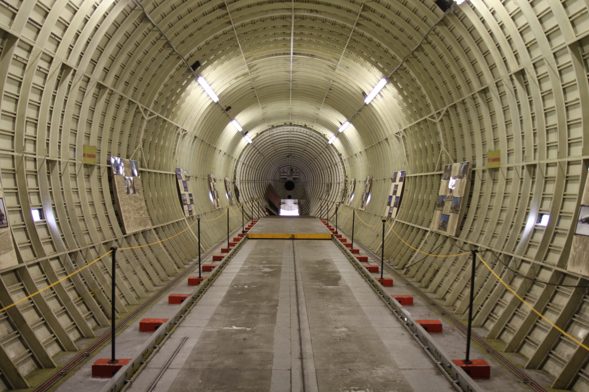 The interior of the Mini Guppy at Tillamook Air Museum.